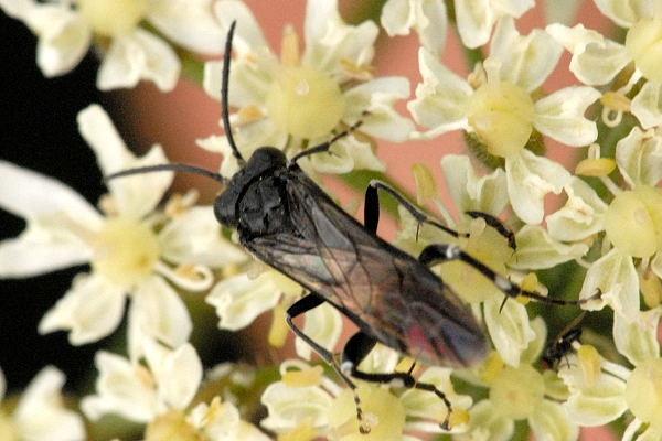 Monophadnoides rubi from Commanster, Belgian High Ardennes .